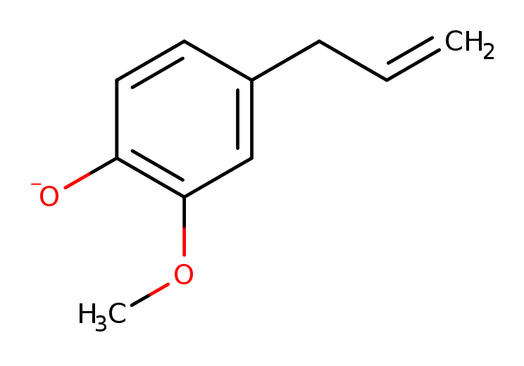 2-methoxy-4-(prop-2-en-1-yl)benzen-1-olate